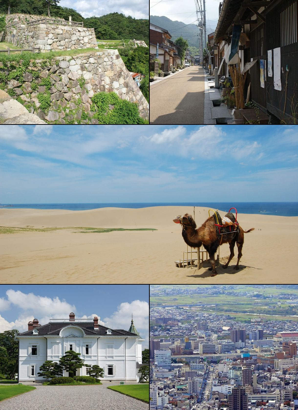 Tottori City, JAPAN From top left:Tottori Castle, Shikano(old castle town), Tottori Sand Dune, Jinpukaku, View of Tottori from Tottori Castle